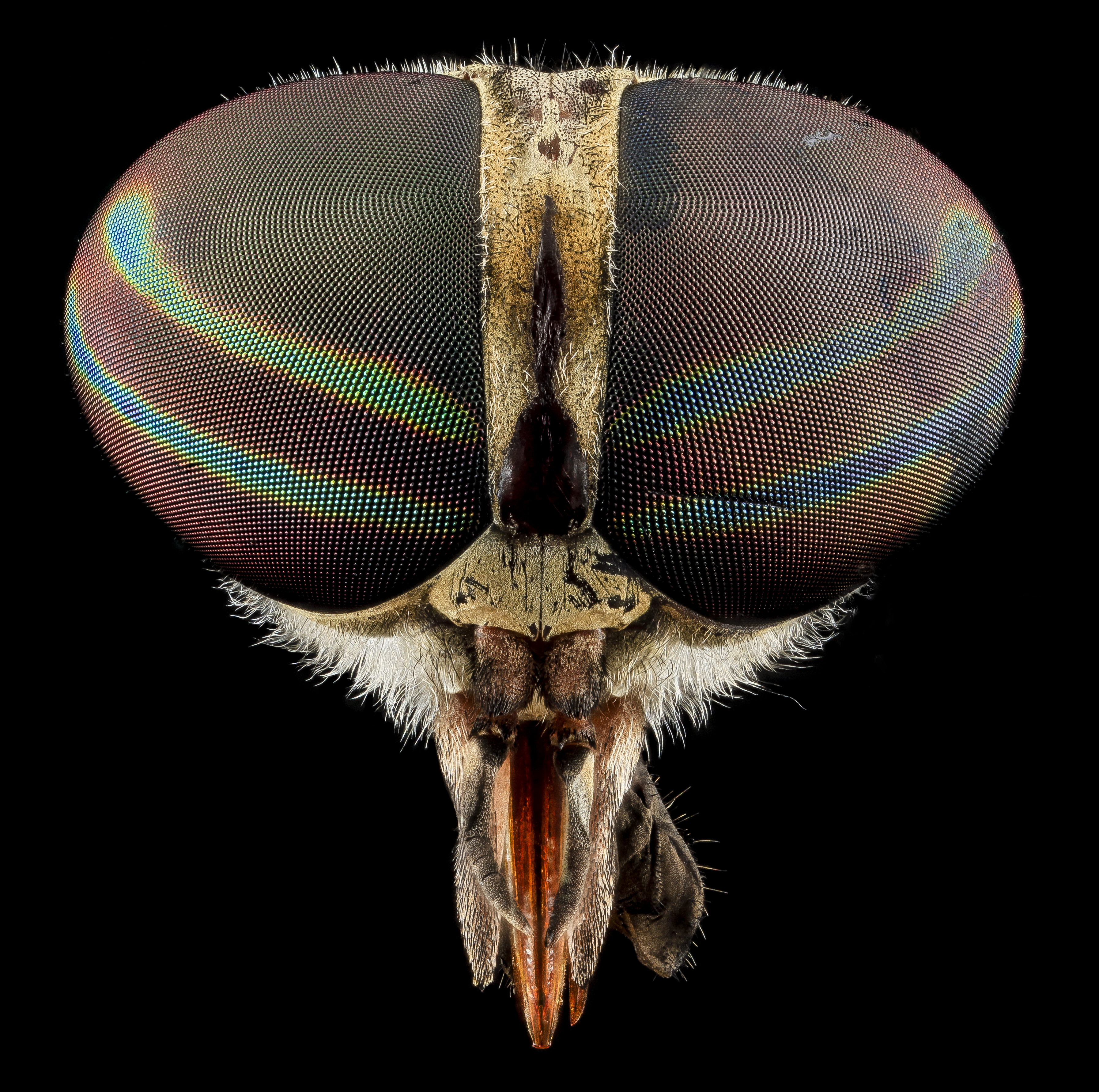 An unknown Horsefly from Upper Marlboro, MD